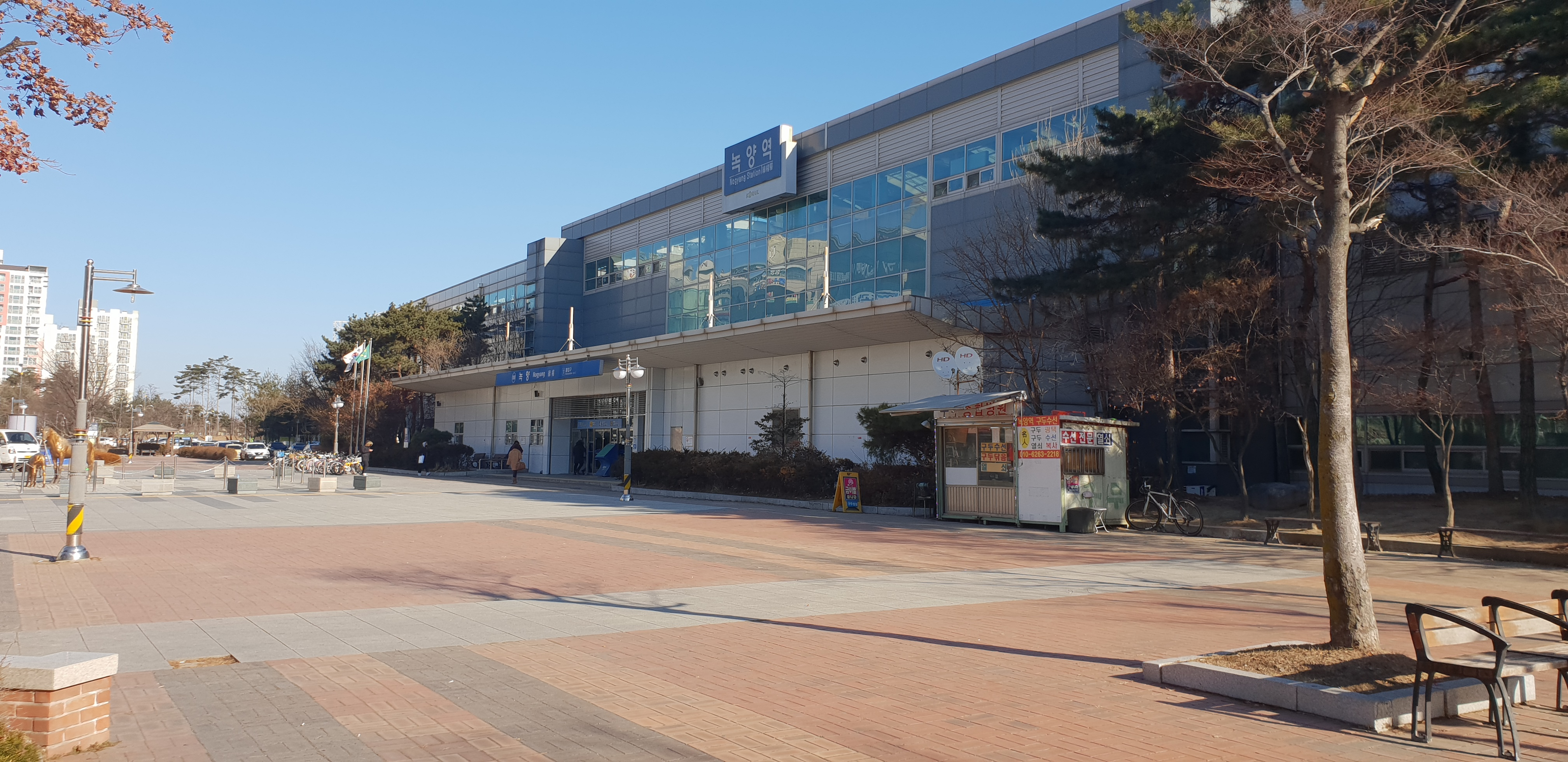 Exterior view of Nogyang Station (Seoul Metropolitan Subway Line 1)